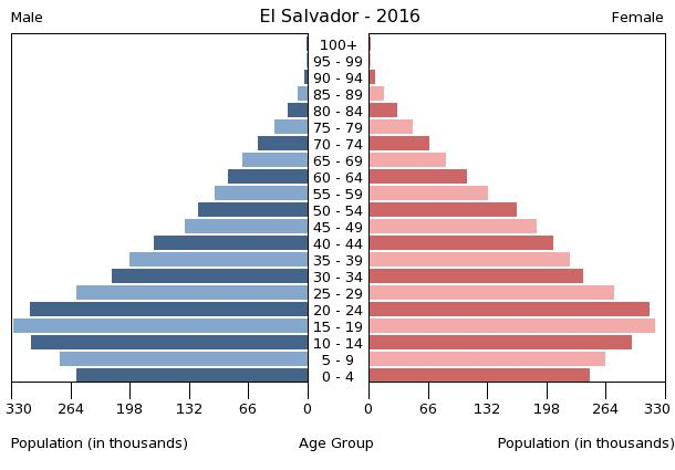 The population pyramid of El Salvador illustrates the age and sex structure of population and may provide insights about political and social stability, as well as economic development. The population is distributed along the horizontal axis, with males shown on the left and females on the right. The male and female populations are broken down into 5-year age groups represented as horizontal bars along the vertical axis, with the youngest age groups at the bottom and the oldest at the top. The shape of the population pyramid gradually evolves over time based on fertility, mortality, and international migration trends.